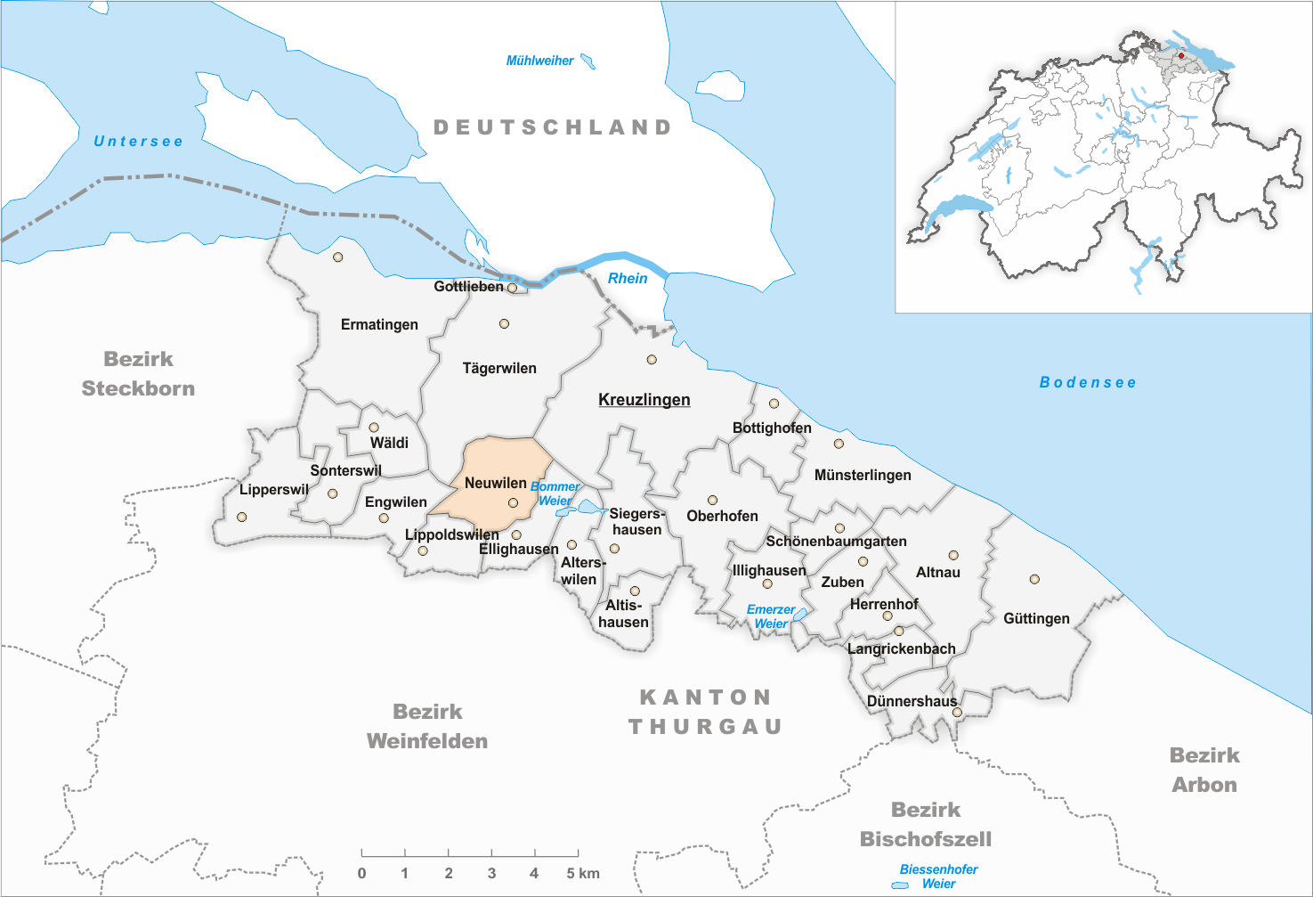 Municipality Neuwilen